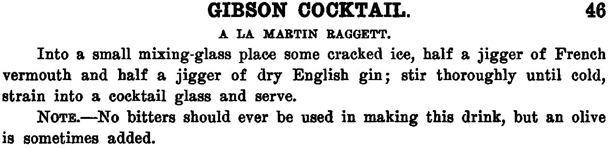 This is the earliest known recipe for the Gibson.